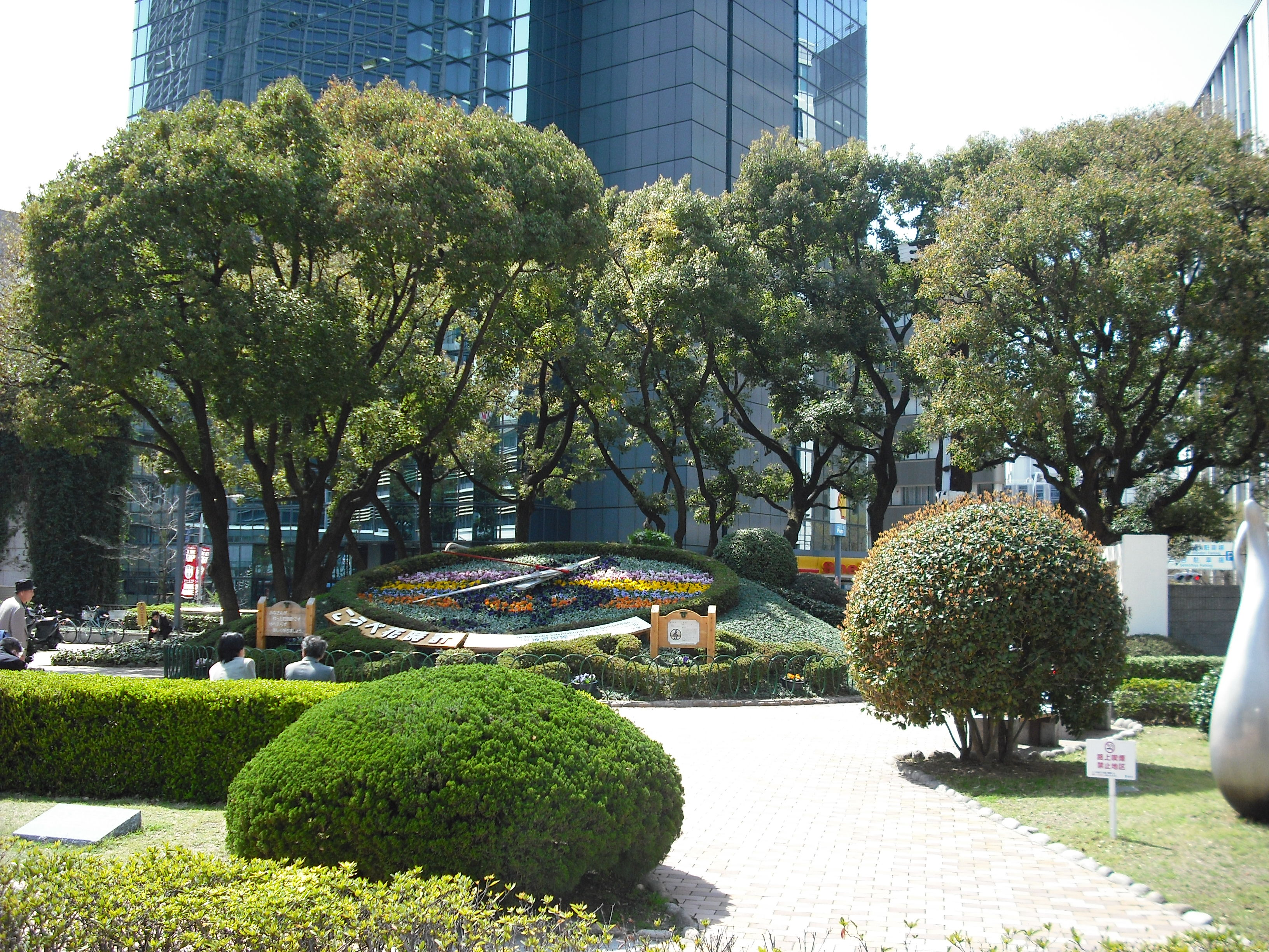 Hana-Dokei（Chuuou-ku,Kobe,Hyogo Prefecture,Japan）